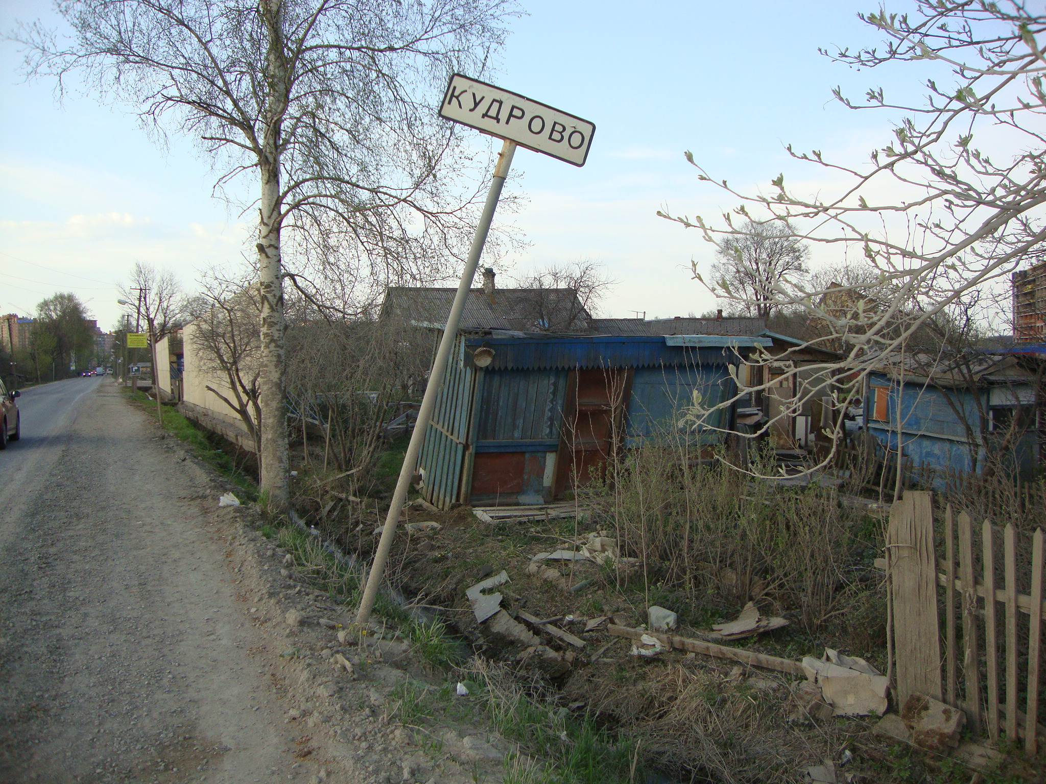 Граница деревни Кудрово весной 2013 года.